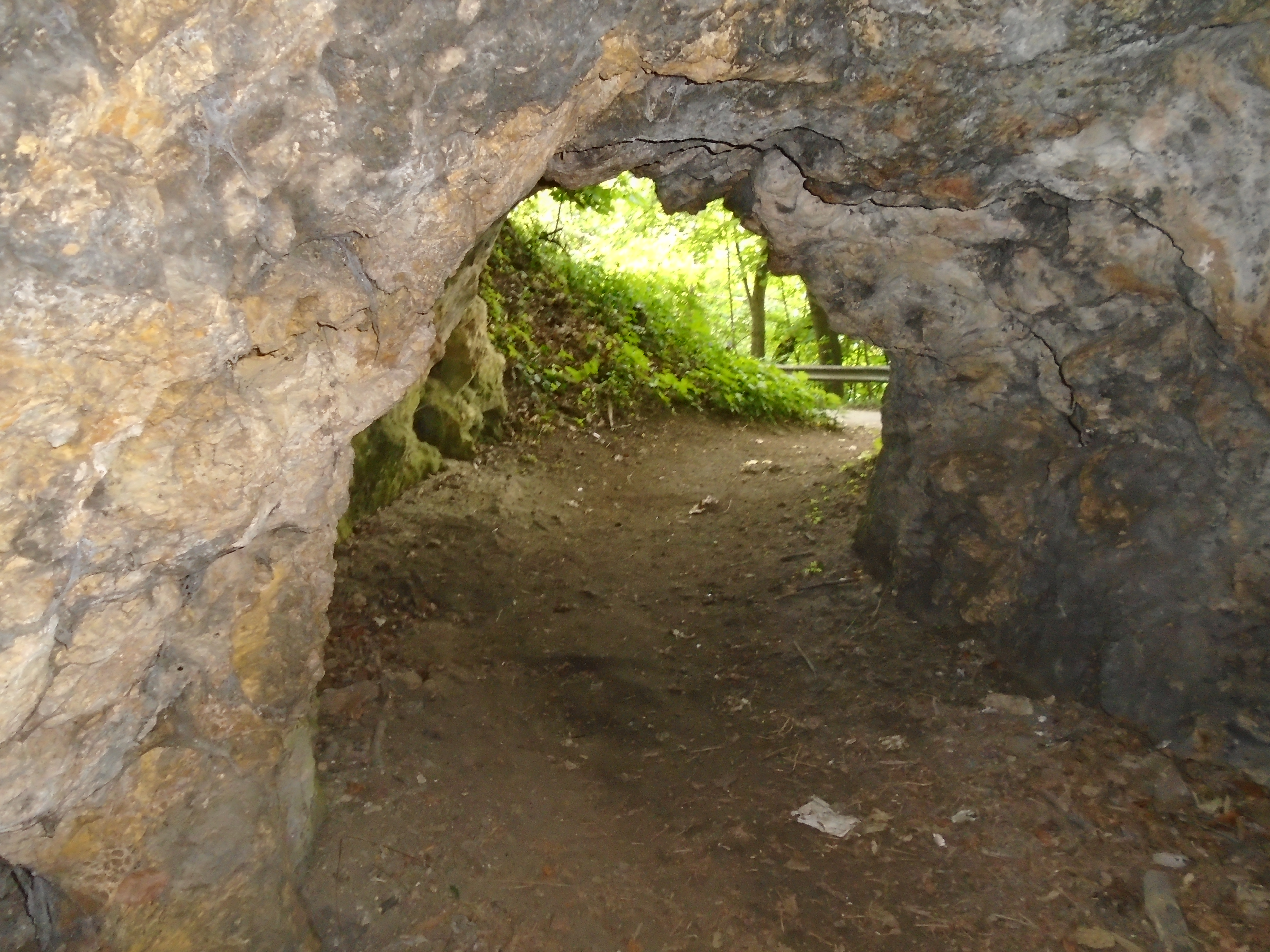 Entrance of János-hegyi Cave.